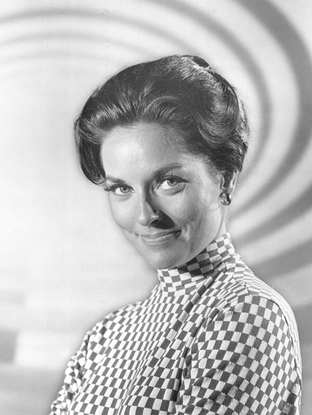 Photo of Lee Meriwhether as Dr. Ann MacGregor from The Time Tunnel.